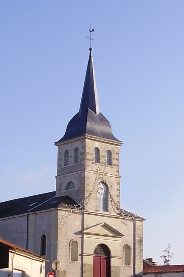 Church "St Pierre" of Remouillé